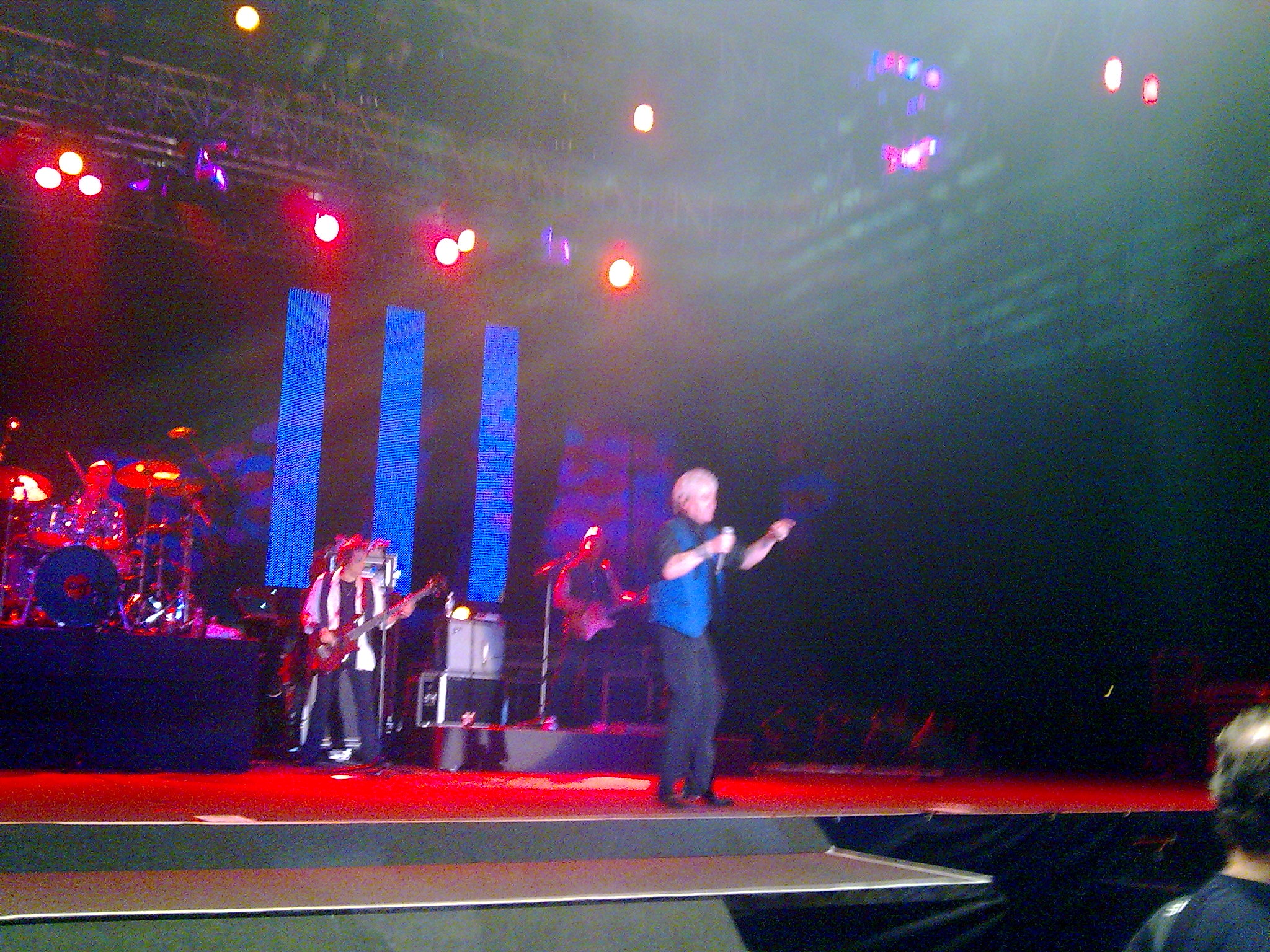 Russell Hitchcock of Air Supply in concert in Singapore.